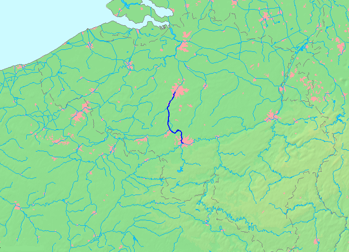 Location of a waterway (river/canal) in Belgium